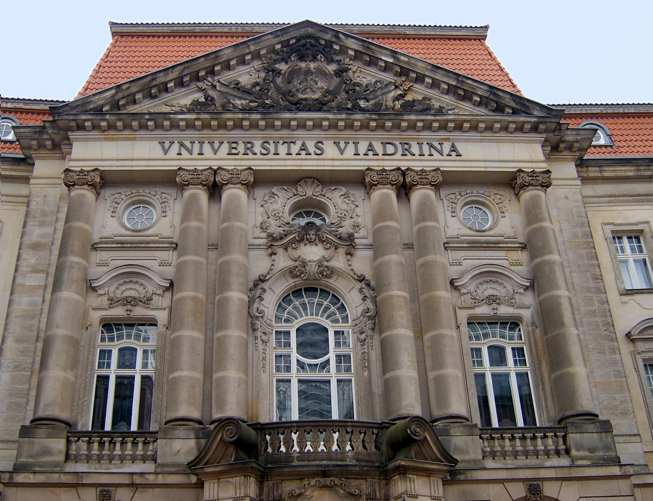 Main building of the University Viadrina in Frankfurt (Oder).